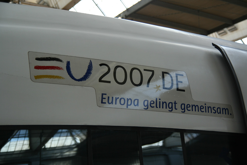 Advertising for the German presidency of the European Council (2007) on a Deutsche Bahn ICE 3M high-speed train